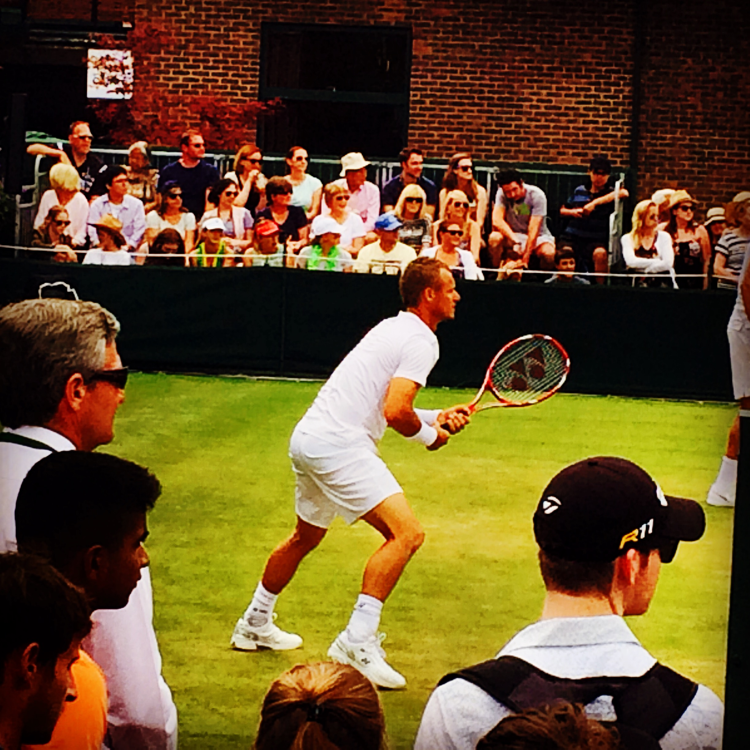 Lleyton Hewitt at Wimbledon 2015 (2)